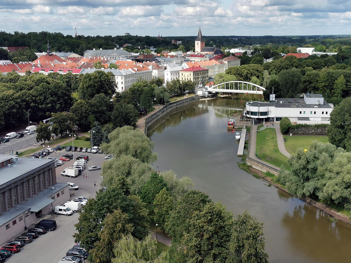 Tartu and Emajõgi in 2019